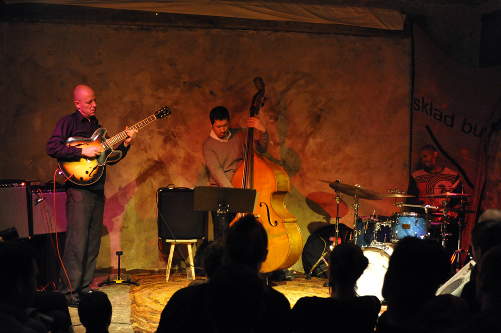 Trio Grzywacz/Penn/Nakamura performing in Warszawa, Poland in November 2010.